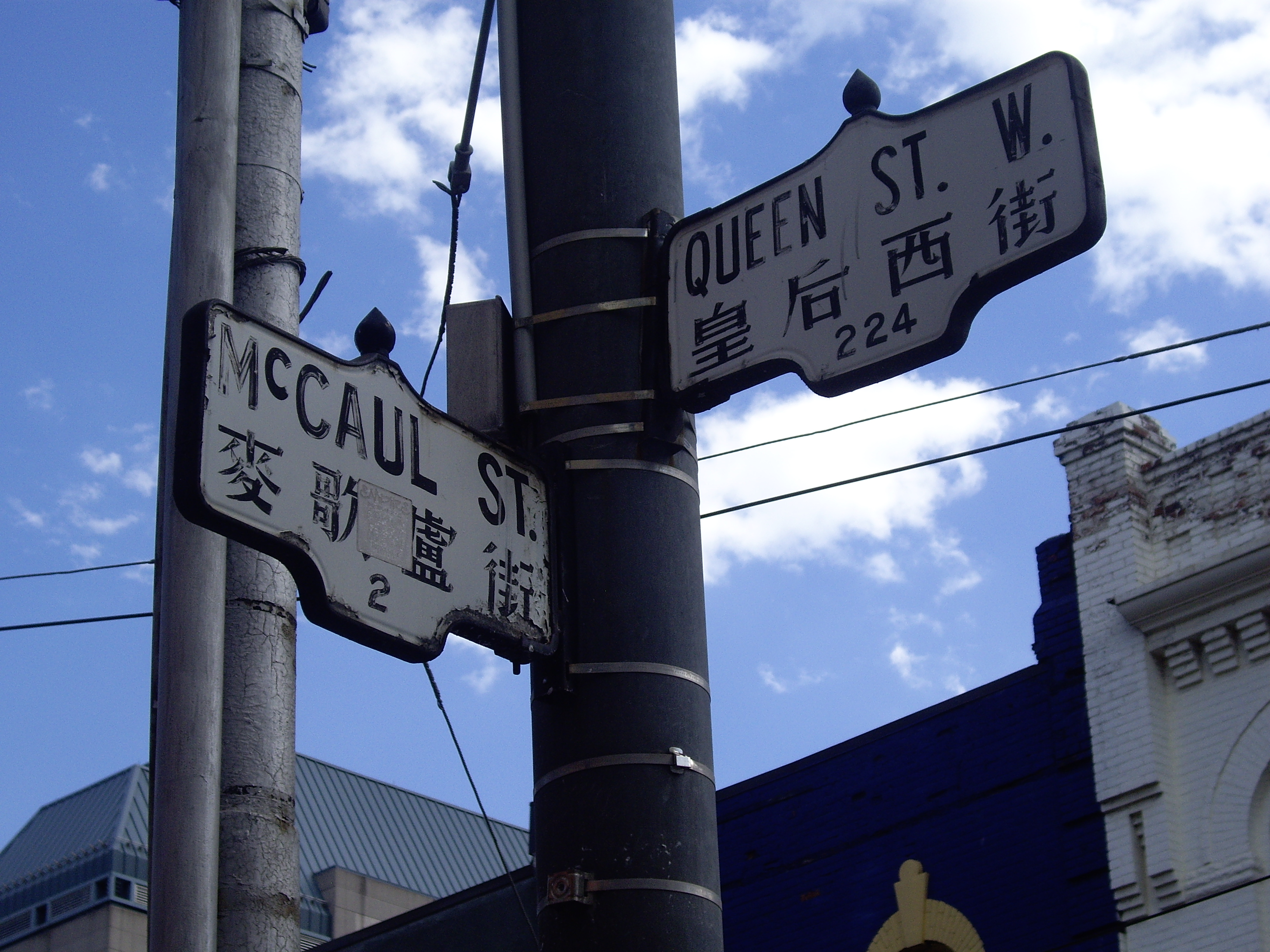 Streetsign with Chinese translation of the street names at the intersection of McCaul Street and Queen Street West.